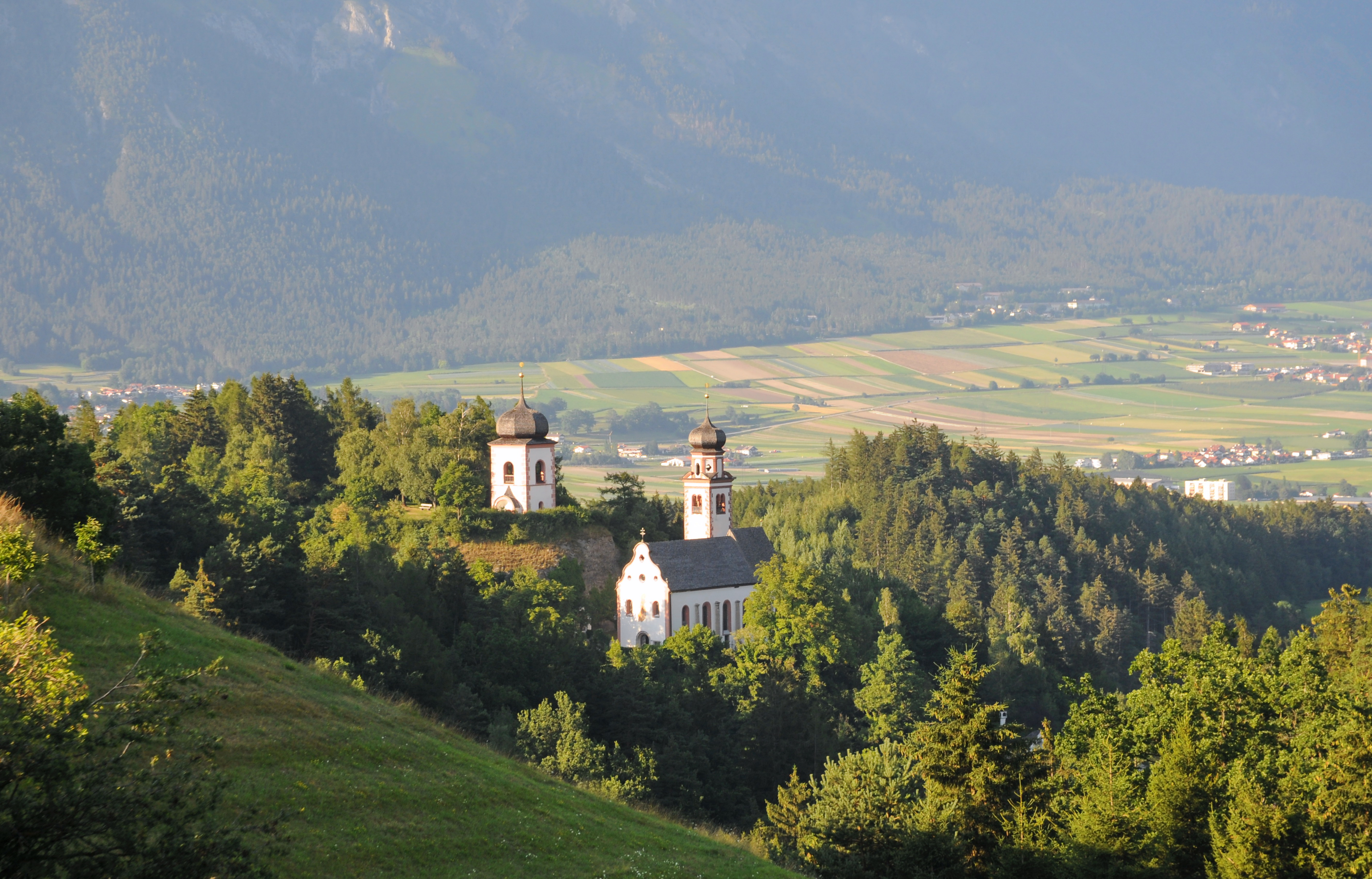 Church Johannes der Täufer